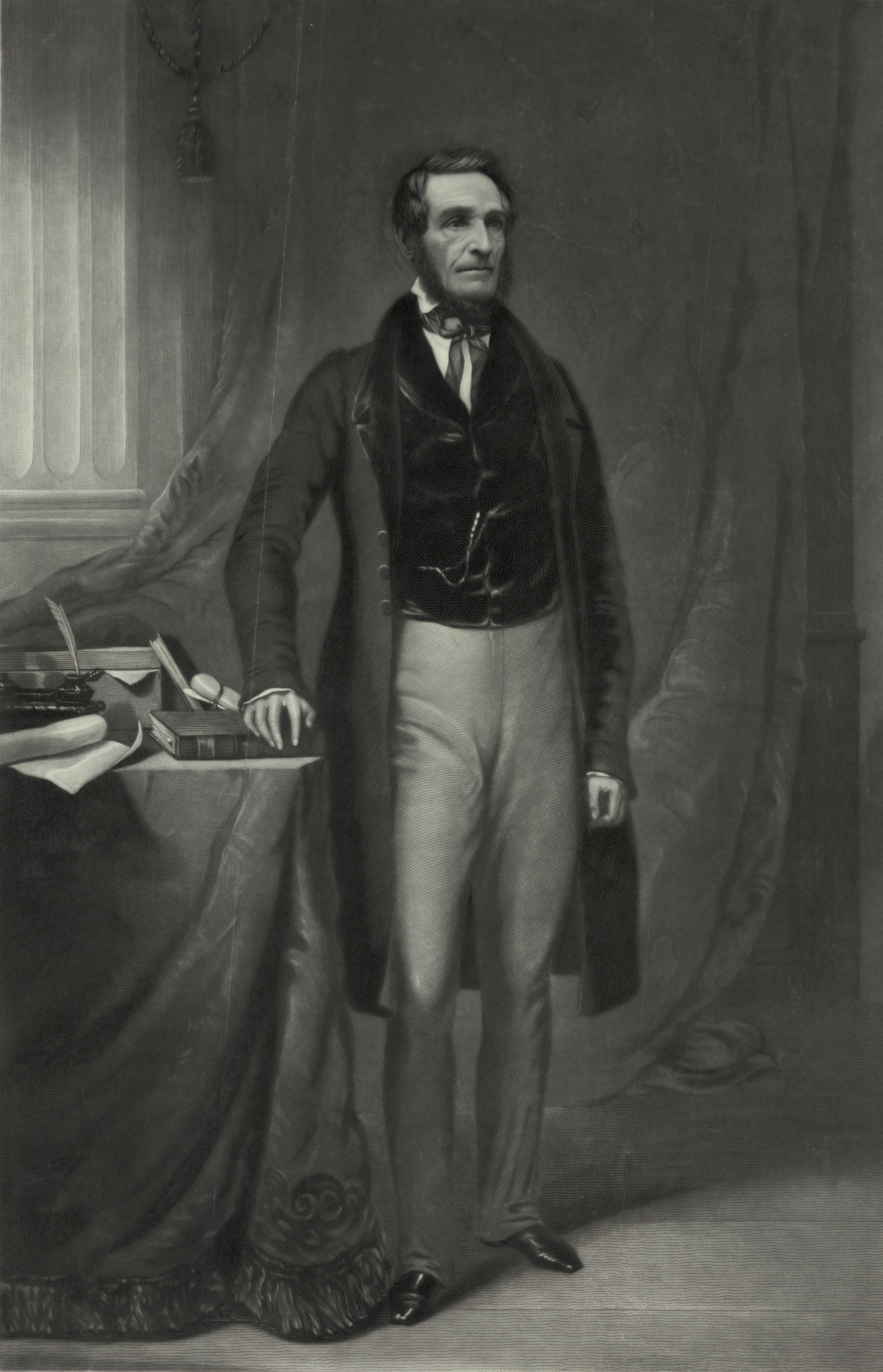 Full length portrait of Zadock Pratt. Writing on the painting reads: HON. Z. Pratt. OF PRATTSVILLE. N.Y. "The hard working Farmers and Mechanics of our Country are its glory and strength, their Labors have produced Wealth; their Honesty, their Patriotism, and its faithfulness to the Institutions of Libery, have given it its Standing among Nations; and in times of danger, their strong arms, and firm heart are its "Safegaurd."—Agr. Address, Sept. 25th, 1845, by Z. Pratt, A.M.